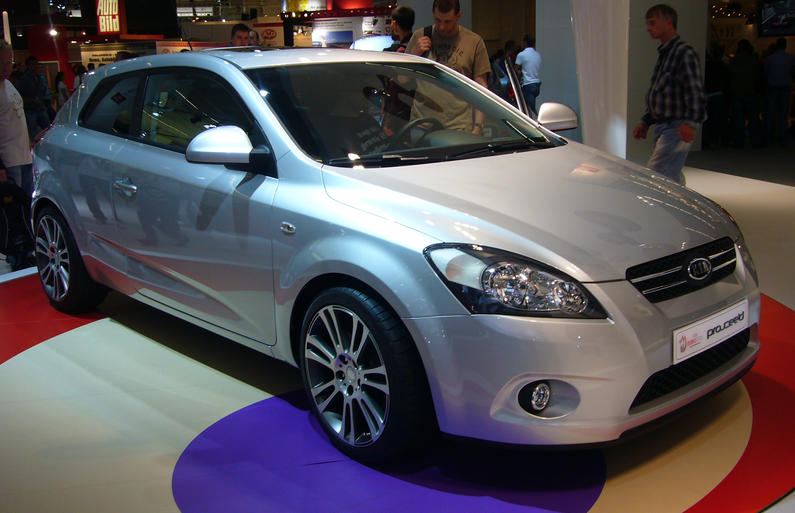 Kia pro_cee'd at IAA Frankfurt 2007